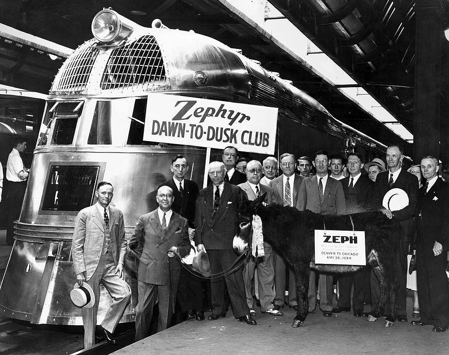 Photo of the Burlington Pioneer Zephyr "Dawn to Dusk Club" comprised of those who rode the Pioneer Zephyr on its intial 1934 record breaking trip from Denver to Chicago. The group was gathered at Chicago's Union Station to mark the first trip of the Denver Zephyr for regular service between these two cities. This image was digitally restored and its watermark removed by Centpacrr at en.Wikipedia.